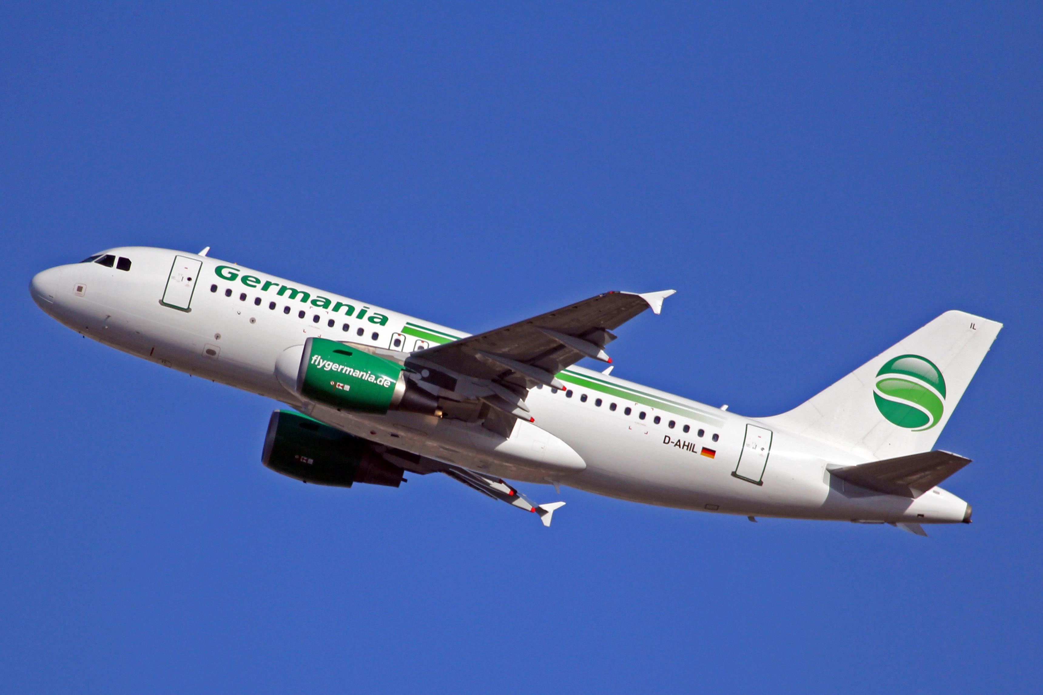 A picture of an airplane (name of it is on the file name).